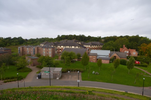 Part of the University of Durham.